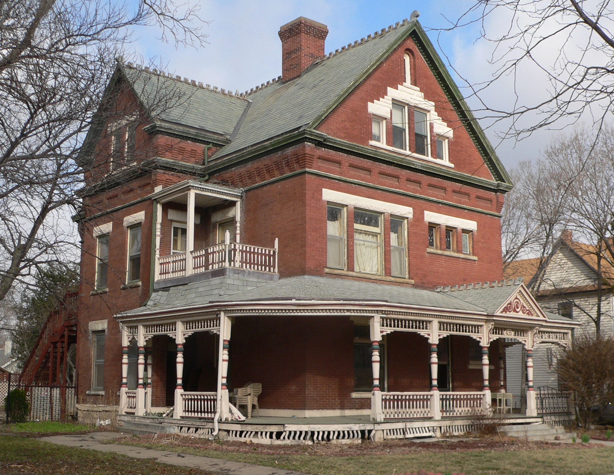 Eddy-Taylor house, located at 435 N. 25th Street in Lincoln, Nebraska; seen from the southeast.